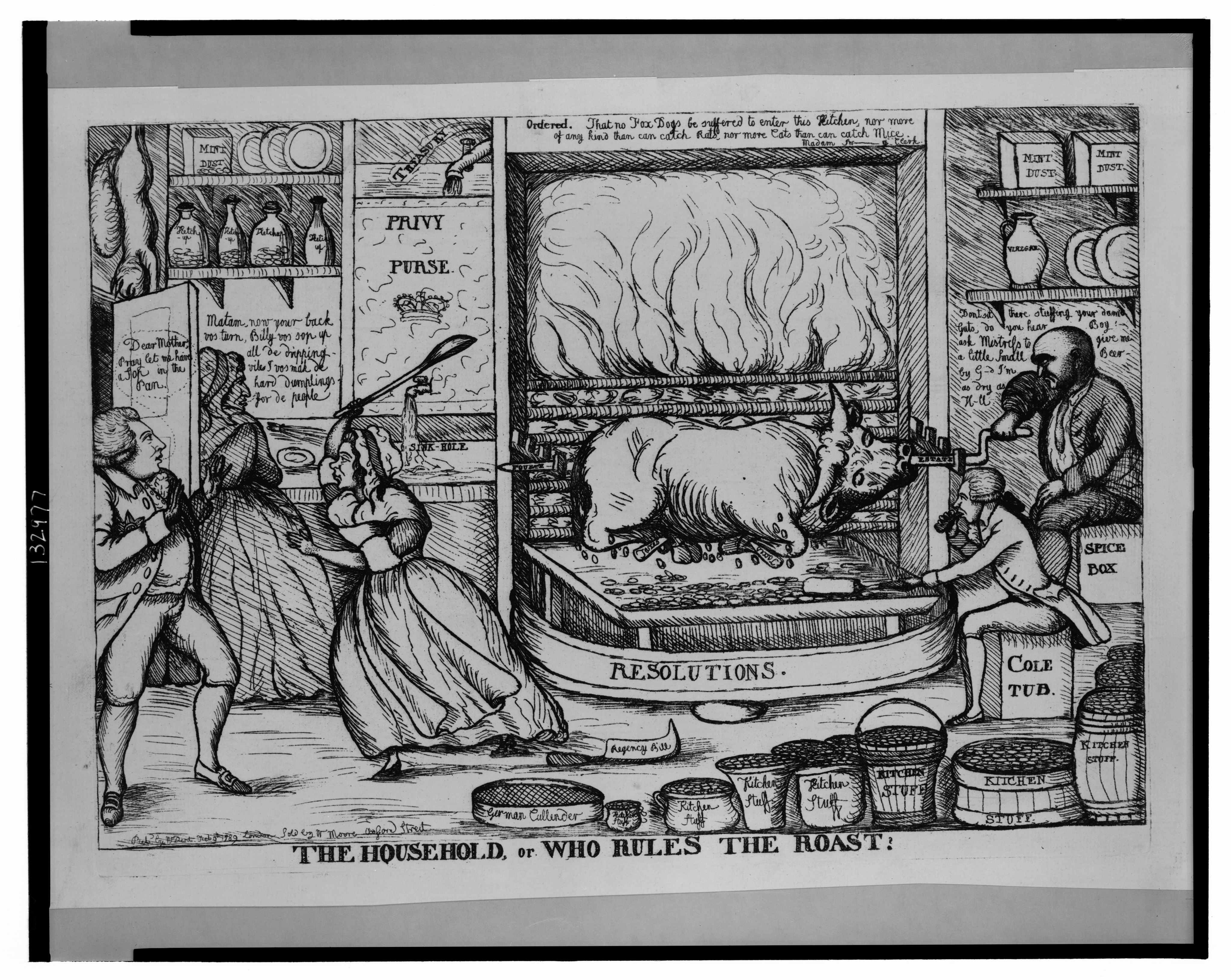 Title: The Household, or who rules the roast! Abstract: Print shows an interior view of a kitchen, the "Treasury" or the "Privy Purse" represented by a crown, in which a large bull on a spit labeled "Fourth Estate" is being roasted before a fire, dripping coins; on the left is the Prince of Wales (George IV), he asks "Dear Mother, pray let me have a sop in the pan." A woman with a large spoon raised over her head moves to drive him from the kitchen. Physical description: 1 print : etching ; 24.5 x 34.3 cm. (plate) Notes: Forms part of: British Cartoon Prints Collection (Library of Congress).; Title from item.